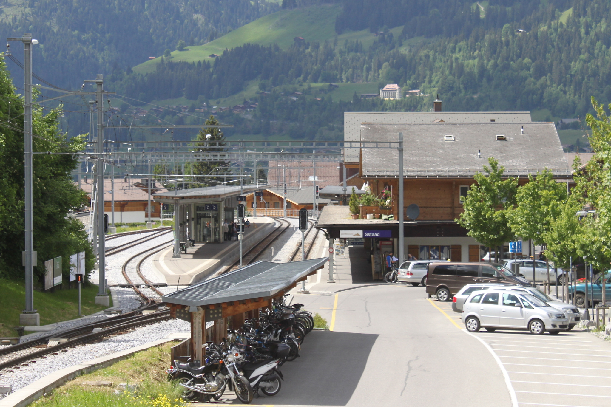 Gstaad train station.